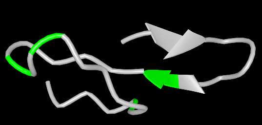 tertiary structure tmem151a with hydrophobic regions in green